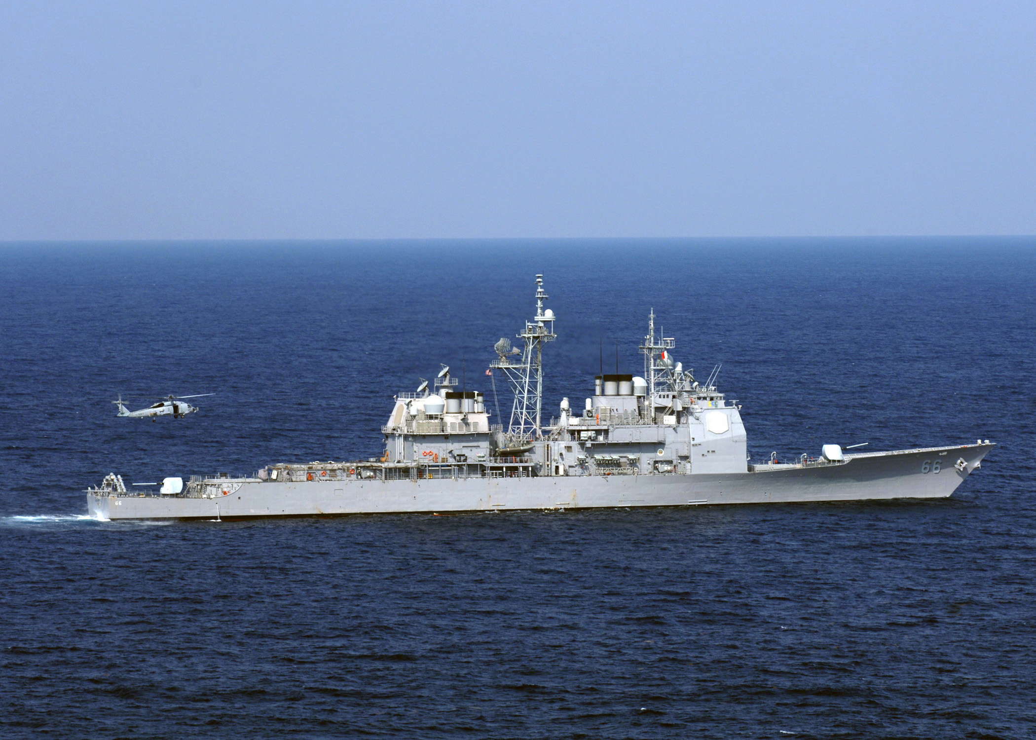 An SH-60 Seahawk helicopter lands on the fantail of Ticonderoga-class cruiser USS Hue City (CG 66) in the Atlantic Ocean April 3, 2007. Hue City is part of USS Harry S. Truman (CVN 75) Carrier Strike Group and is under way conducting tailored ship's trai ning availability. (U.S. Navy photo by Mass Communication Specialist 2nd Class Jay C. Pugh) (Released)